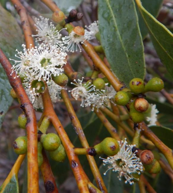 Flowers of Eucalyptus arenacea photographed in the Coorong